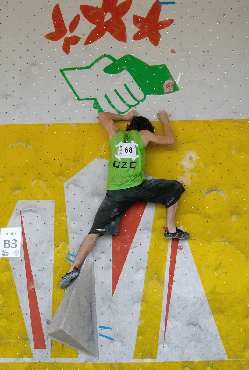 Jan Chvála during qualifications at the IFSC Boulder Worldcup Vienna 2010.